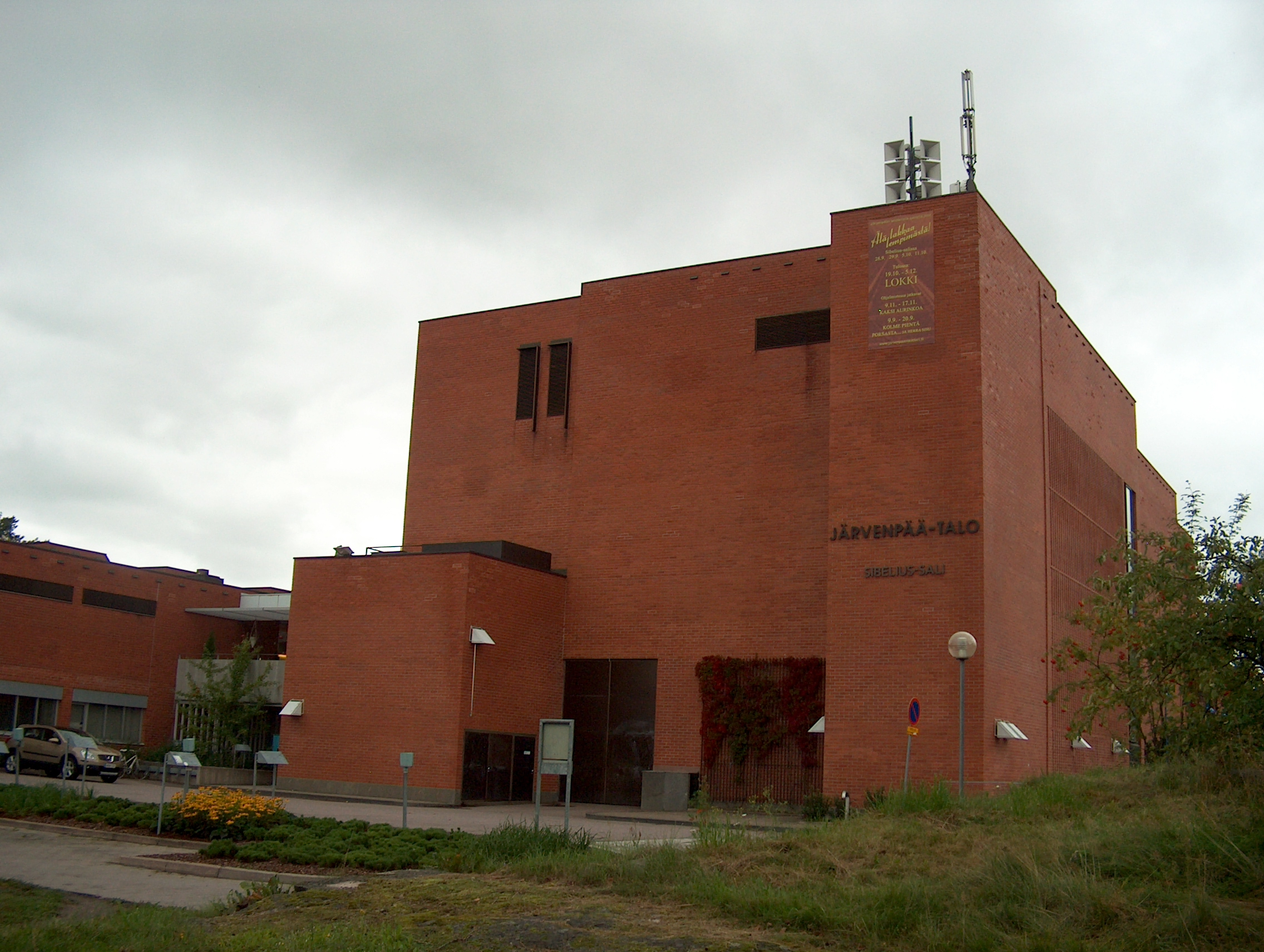 Järvenpää Culture House, built in 1987, architects Olavi Lipponen and Erkki Karonen